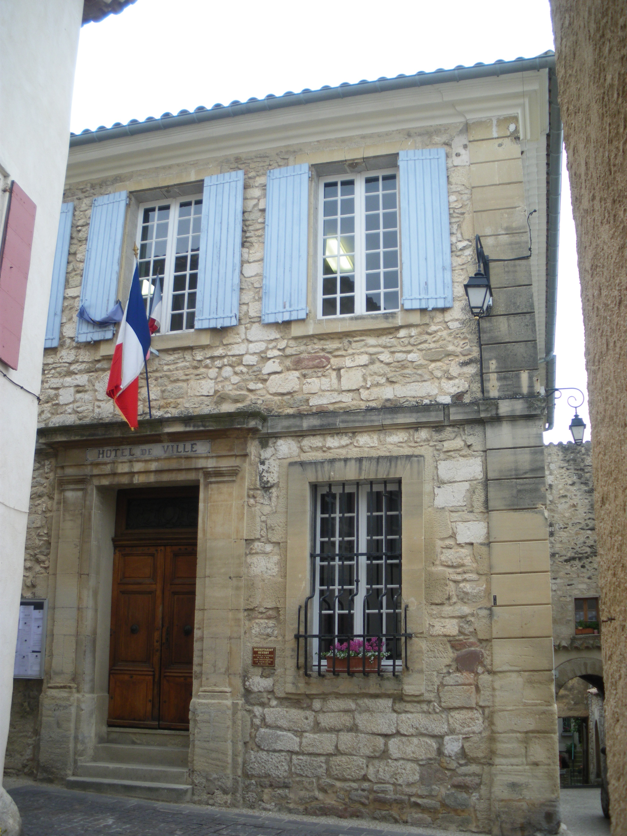 town hall of Venasque, Vaucluse, France